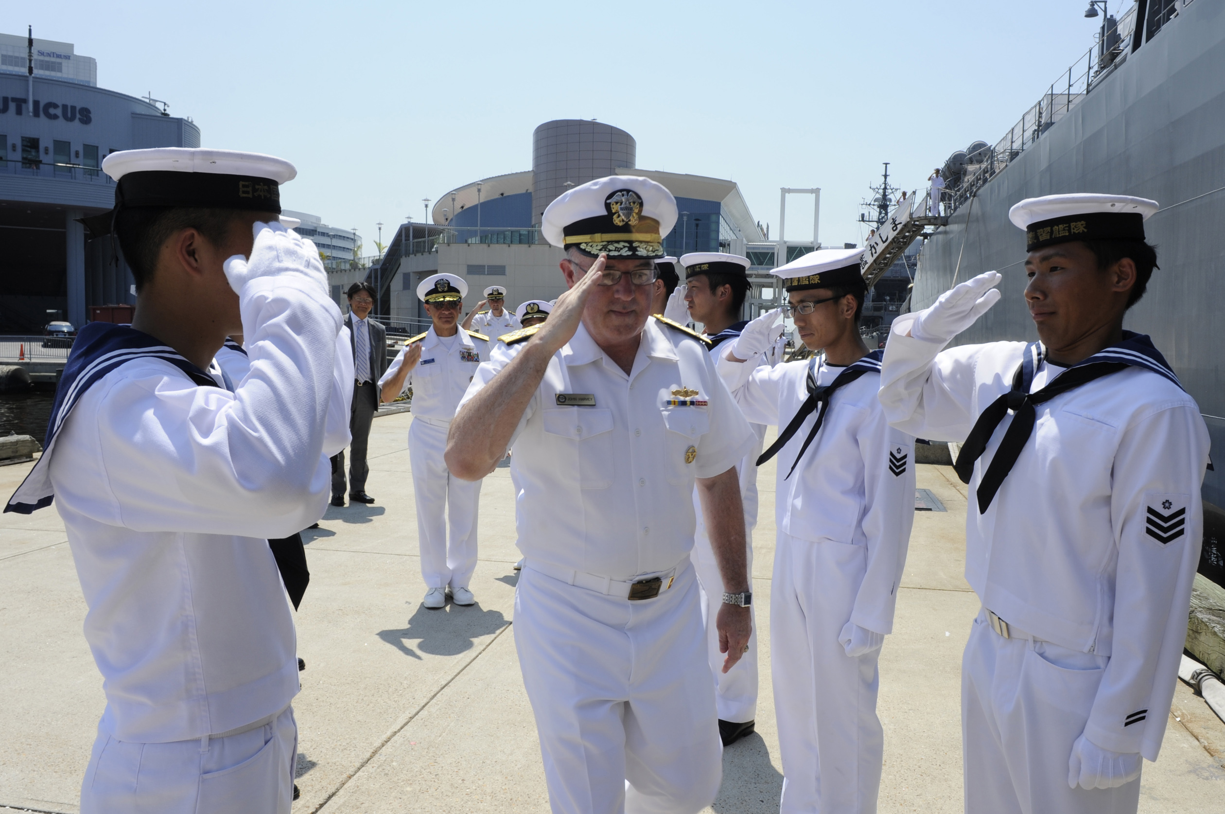 NORFOLK (Aug. 2, 2011) Adm. John Harvey salutes the sideboys as he boards the Japan Maritime Self-Defense Force training squadron ship Kashima (TV 3508). Kashima is in Norfolk after completing the at-sea phase of the bilateral passing exercise with the U.S. Navy. (U.S. Navy photo by Mass Communication Specialist 3rd Class David R. Finley Jr./Released)